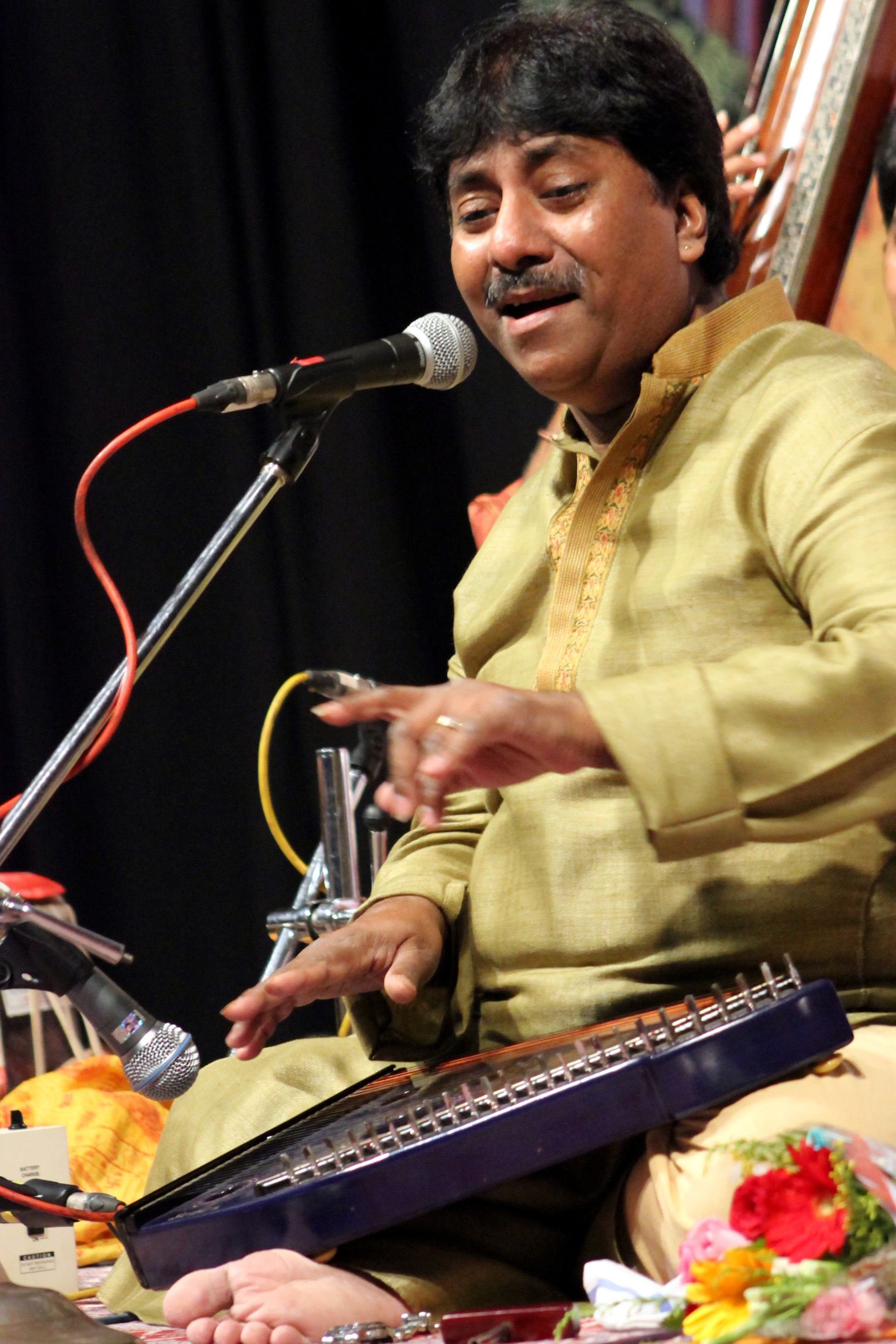 Ustad Rashid Khan Performing at [Bharat Bhavan] [Bhopal] inevent 'Baadal Raag-13' September 2015